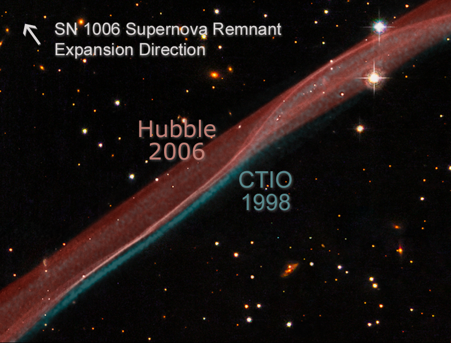 SN 1006 Supernova Remnant Expansion Comparison Credit: NASA, ESA, STScI Source: [1]